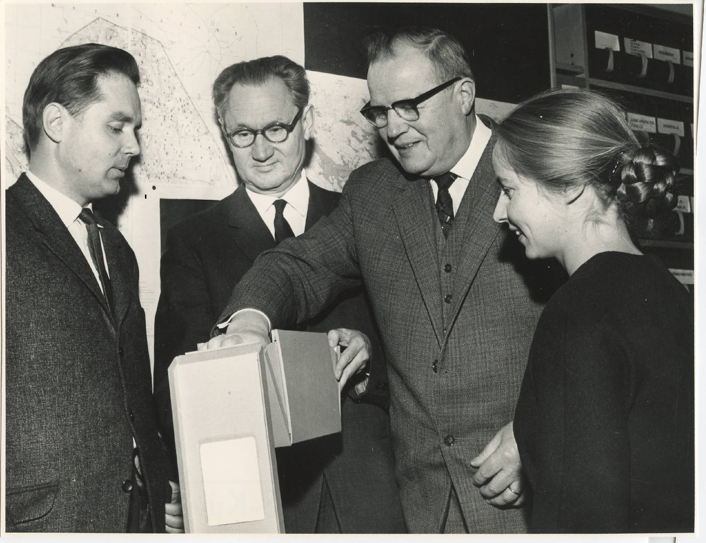 Photograph of the Finnish linguists Terho Itkonen, Viljo Nissilä, Kustaa Vilkuna and Eeva Maria Närhi at the archives of Finnish toponyms.